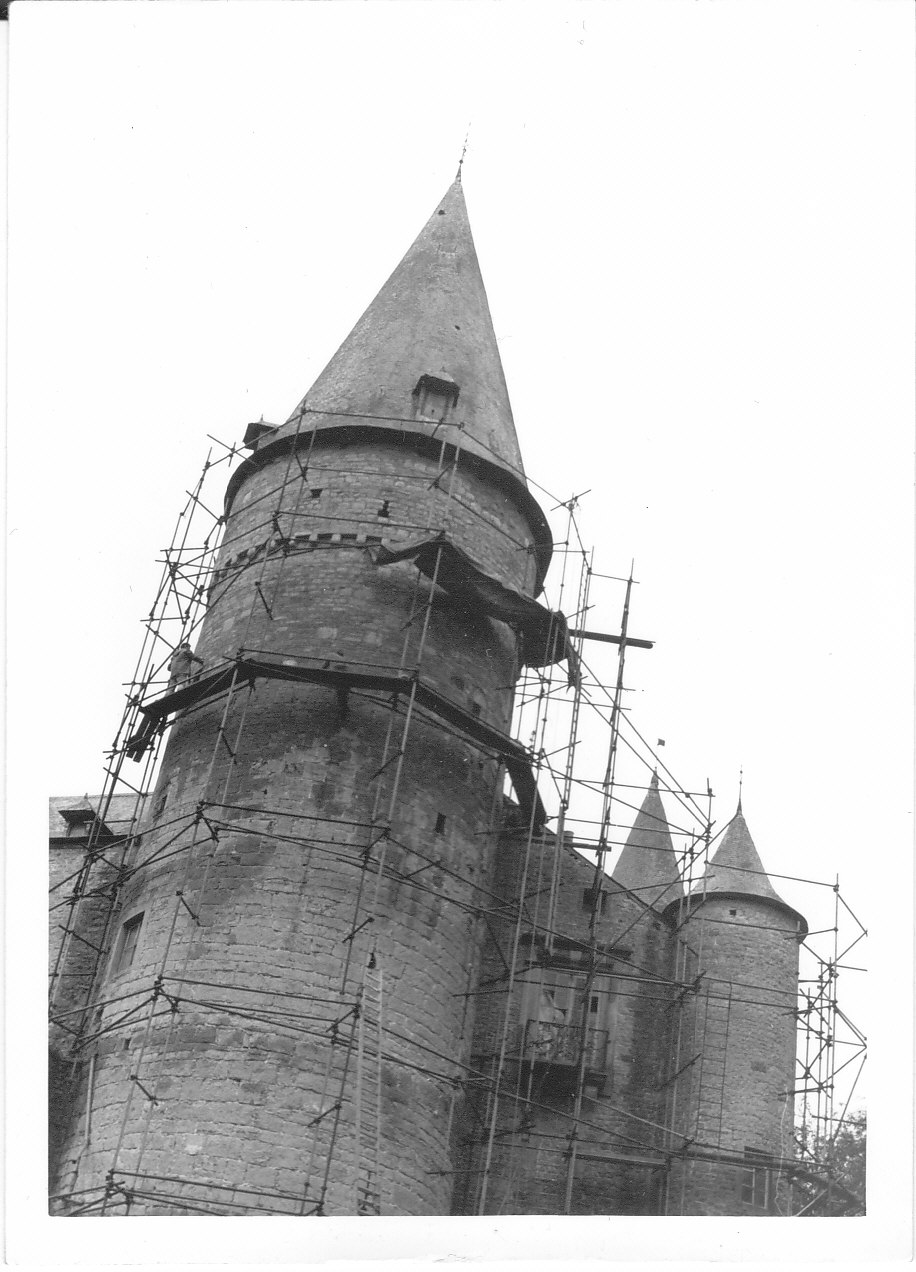 Architect Francis Bonaert restored the keep at the Castle of Vêves